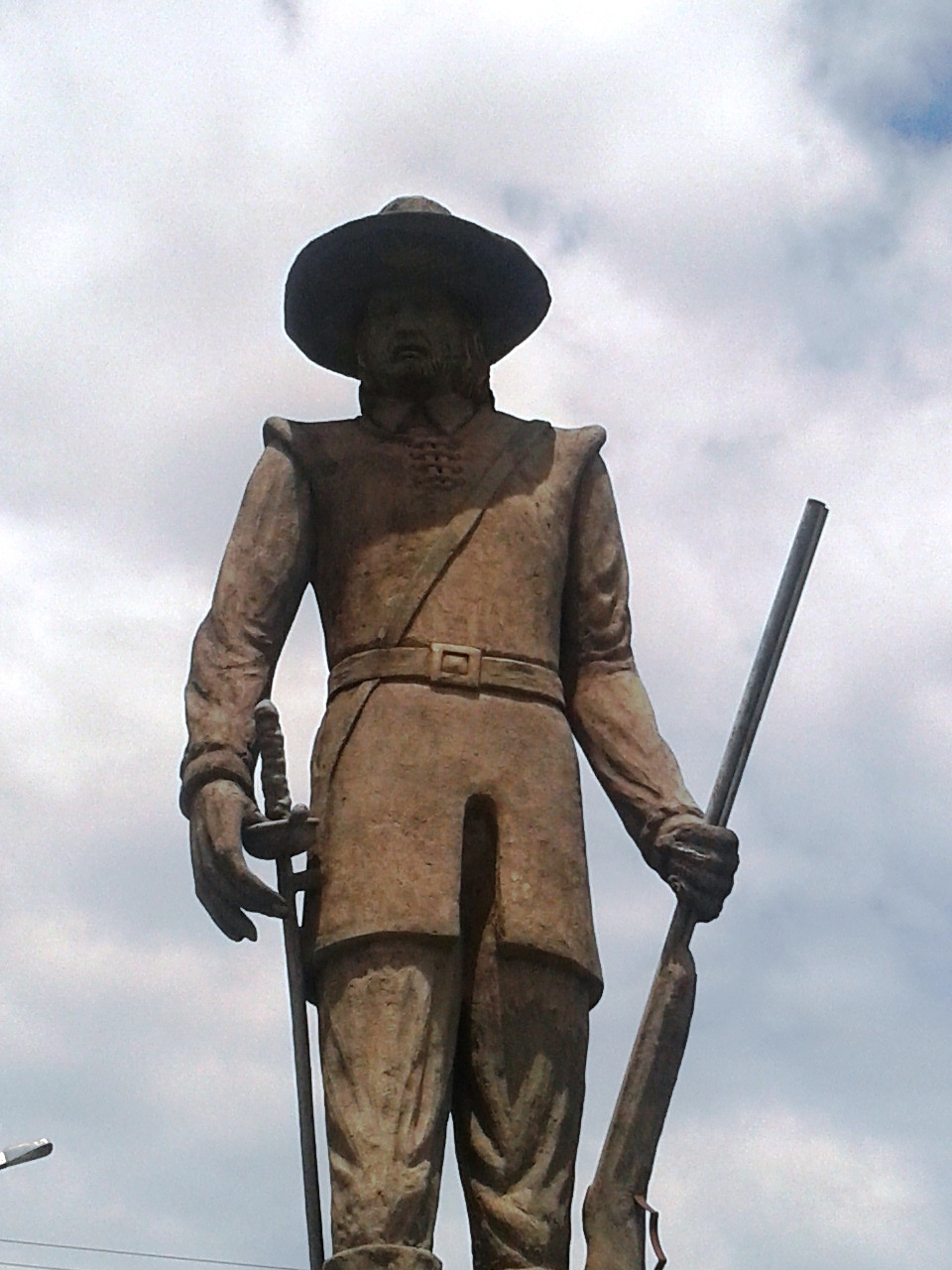 Restored